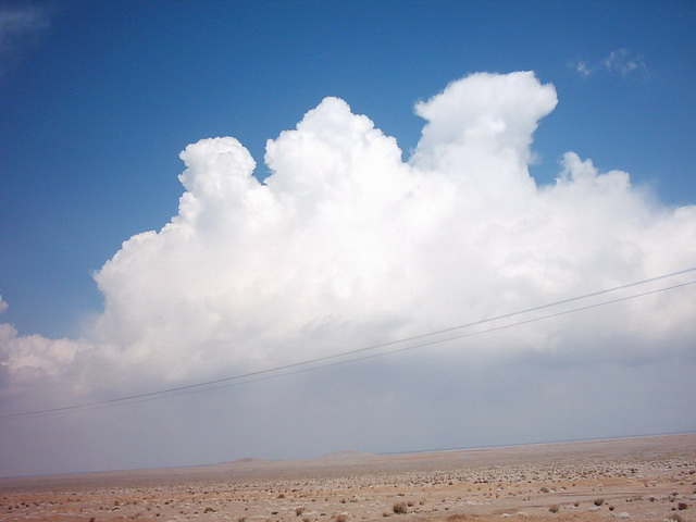 Captured in Malvajerd